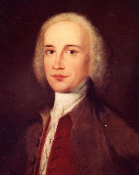 Portrait by unknown artist of John I Taylor (1704-1775) of Bordesley Hall near Birmingham, England, a button manufacturer and co-founder of Lloyds Bank. Source: Lloyds Bank website, painting in location unknown.